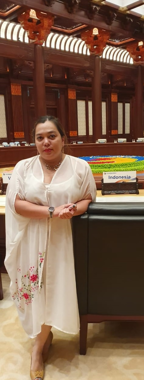 Angela Simatupang, member board of RSM and managing partner RSM Indonesia